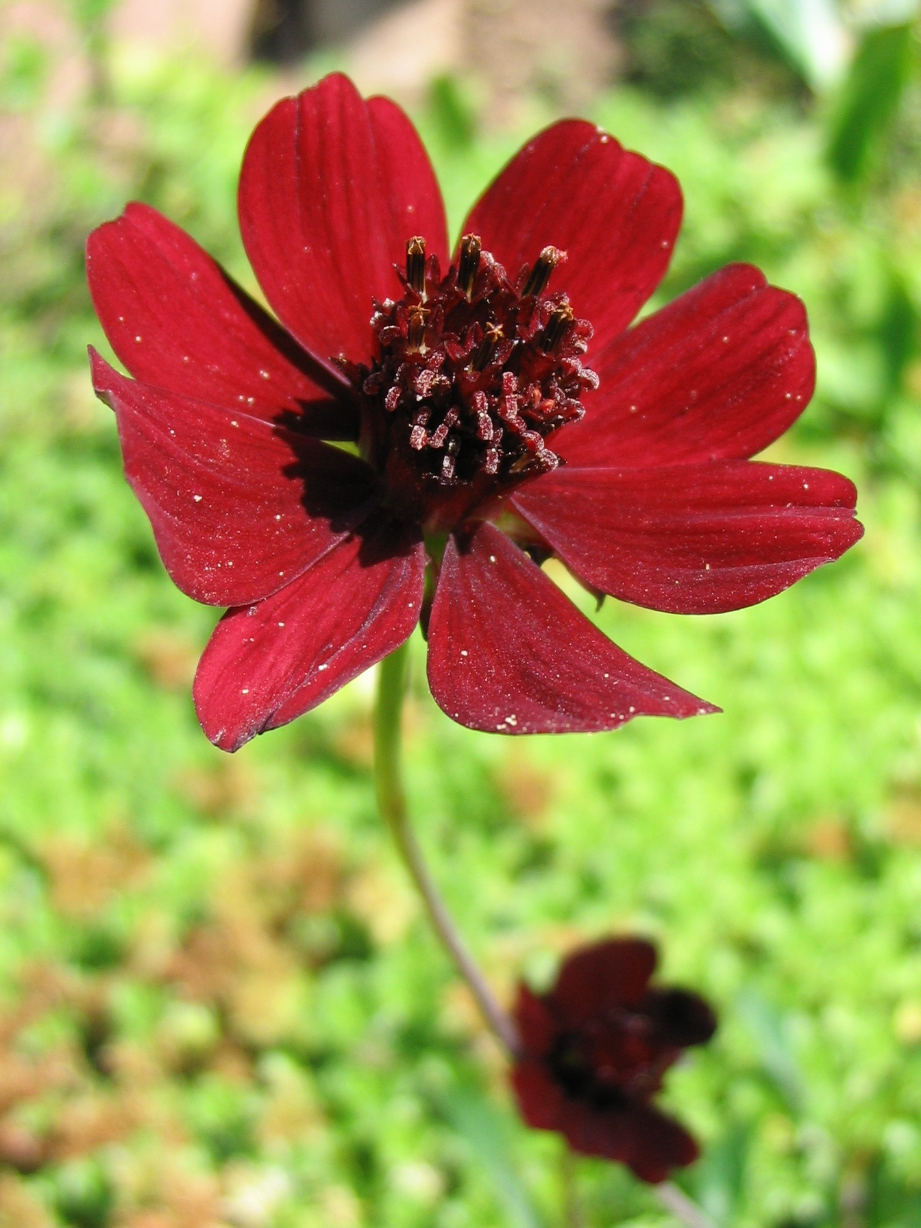 Chocolate cosmos (Cosmos atrosanguineus). Smells like chocolate!